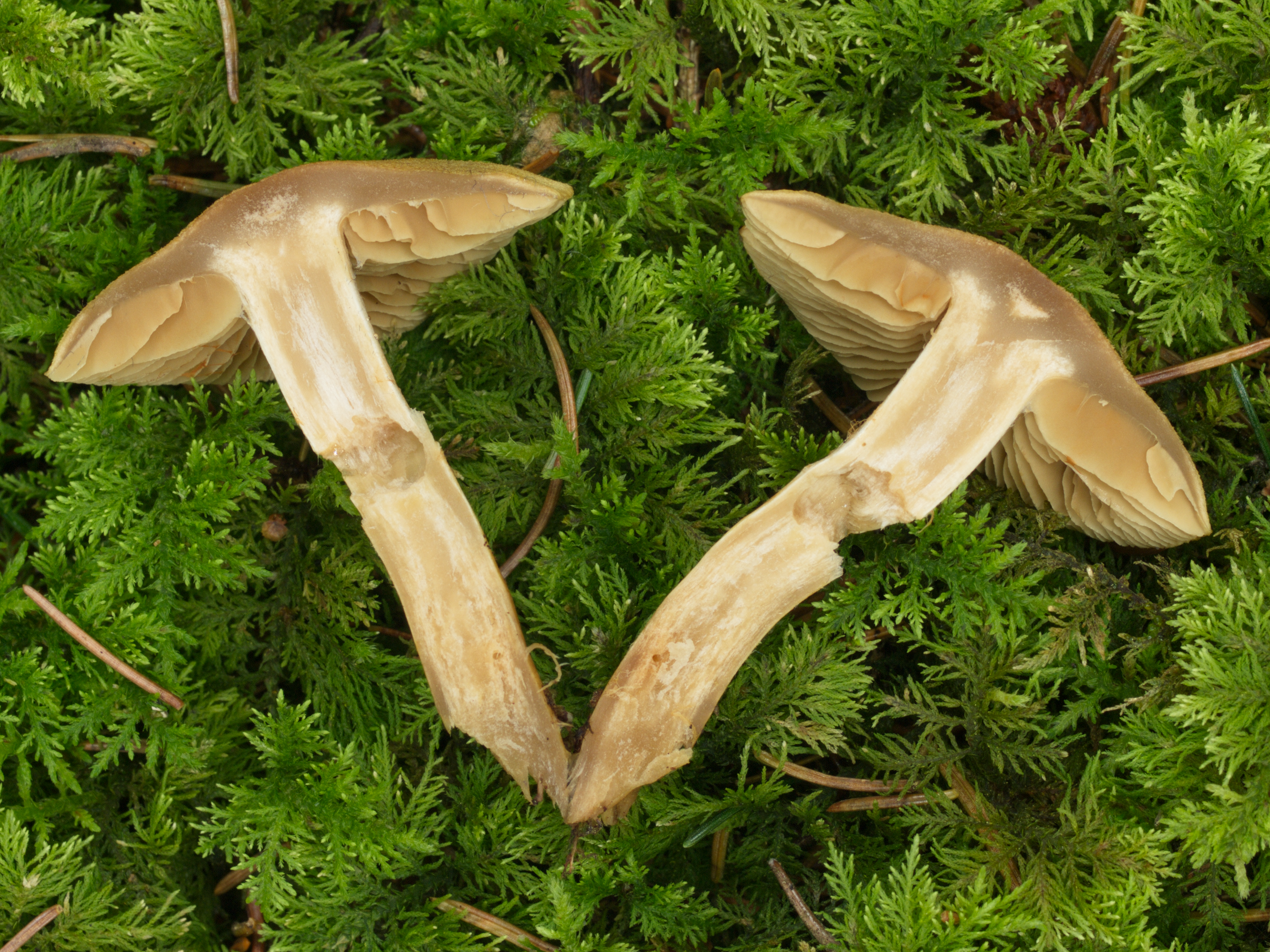 Cortinarius venetus var. montanus